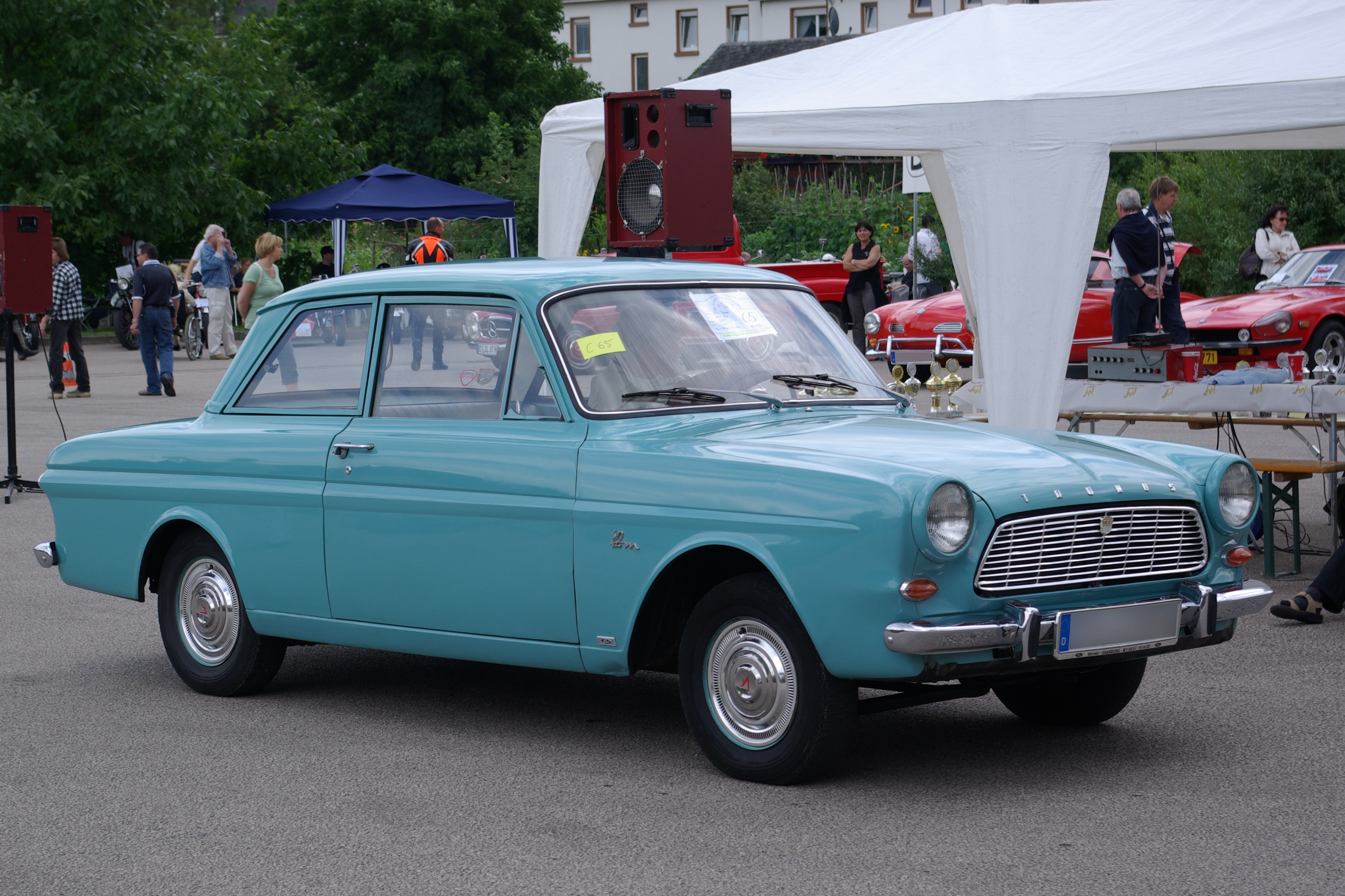 A 1965 Ford Taunus 12M (P4) car.